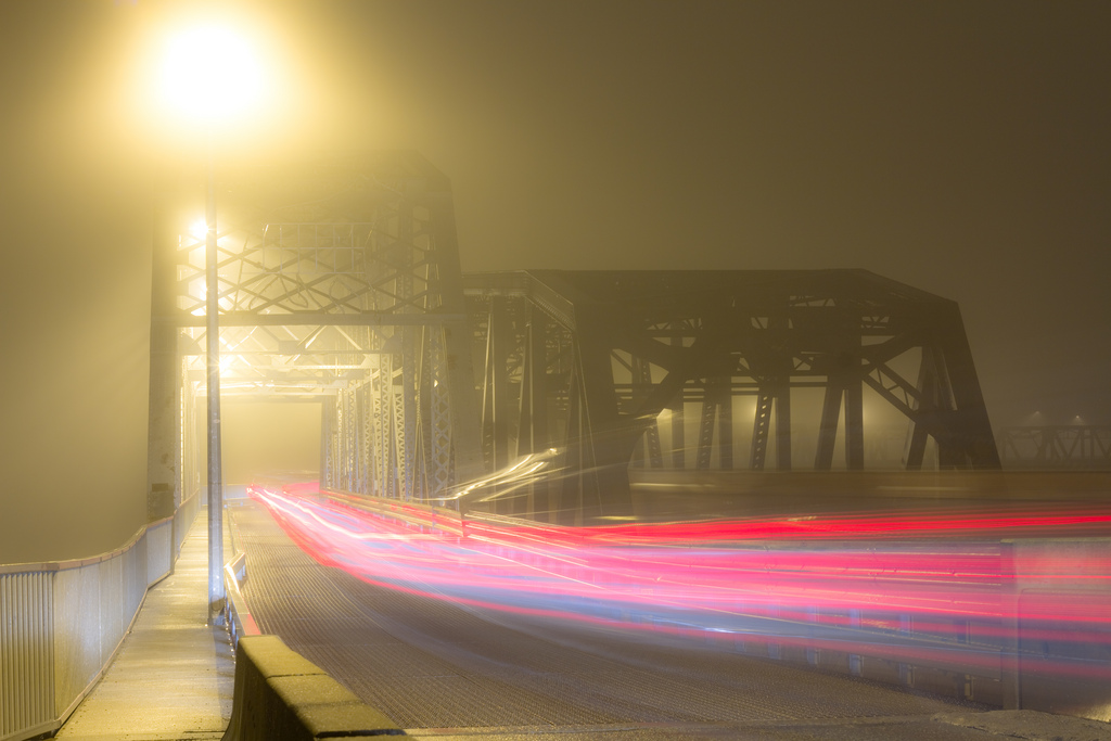 The Old Skeena Bridge in Terrace, BC was built like forever ago! (50+ years or so?) It used to be the longest bridge ever built with these huge trees from Africa. This isn't exact or descriptive enough but it's actually totally true.